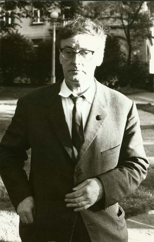 The Ladin Poet Max Tosi (1914-1988)